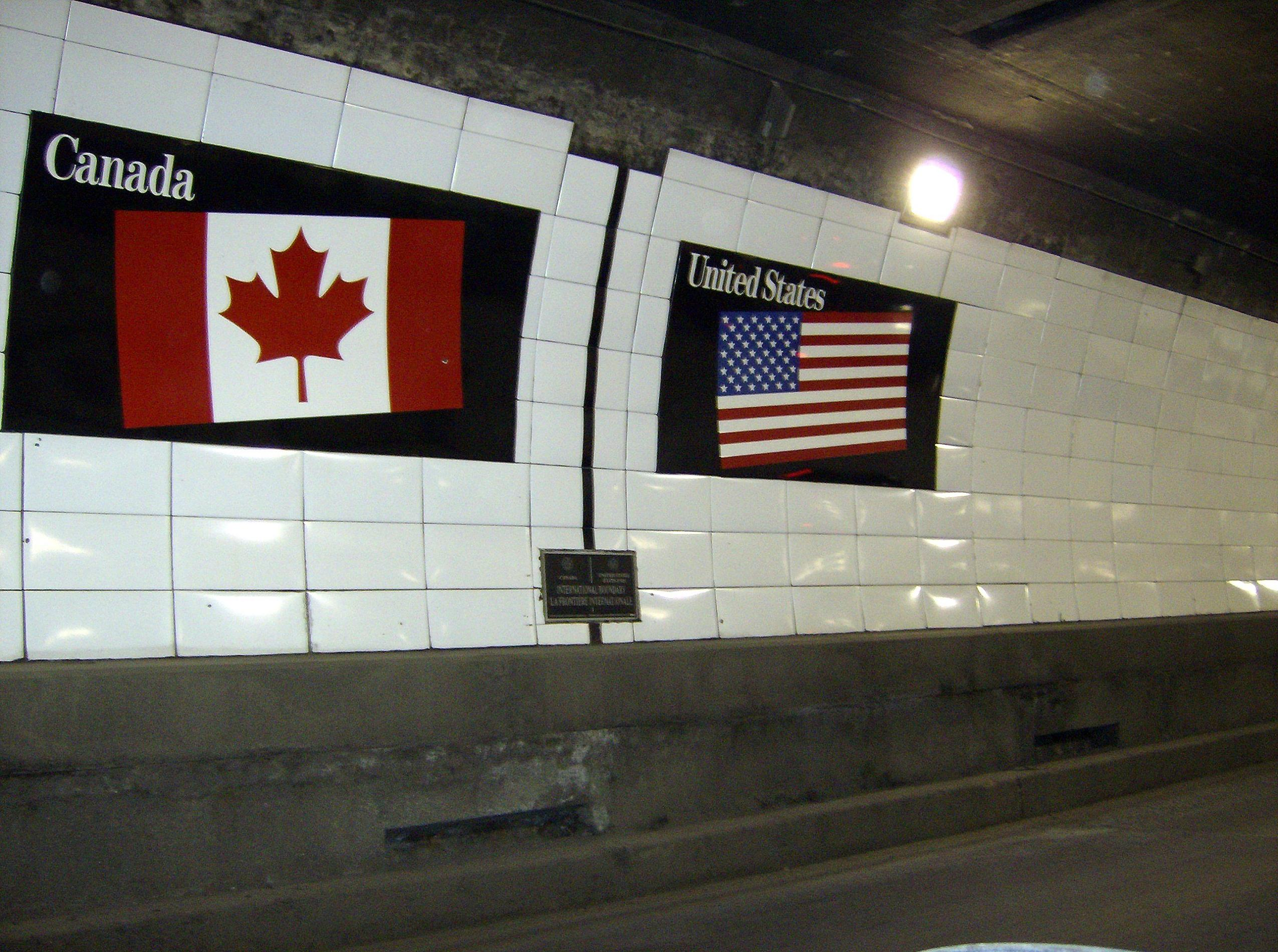 Flags of Canada and the United States over a metal boundary marker in the Detroit-Windsor Tunnel